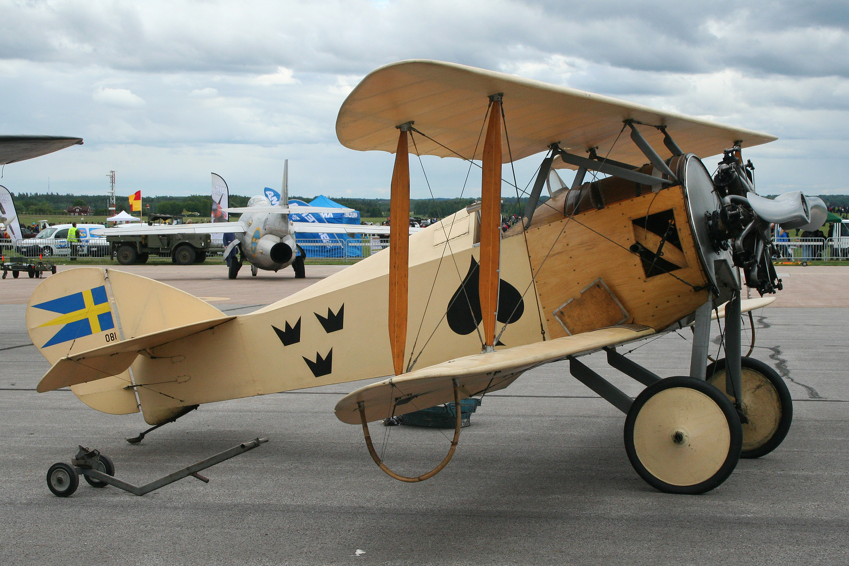 Interesting shot of Michael Carlson's Tummelisa with the engine cowling removed. Largely a reproduction but using many original parts. msn 362. 2012 Malmen Airshow, Sweden. 03-06-2012